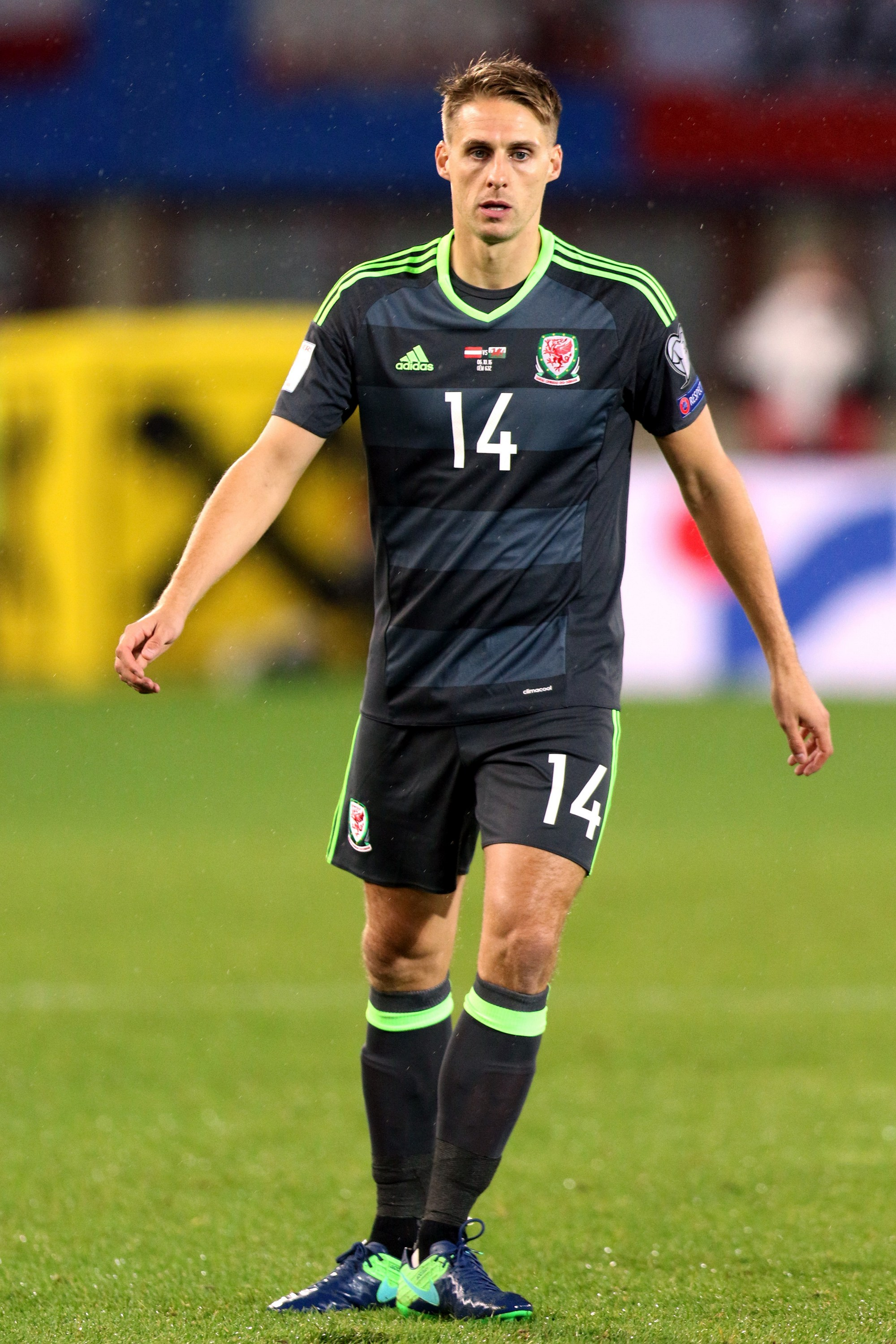 2018 FIFA World Cup qualification – UEFA Group D) – Austria (red shirts) vs. Wales (white shirts) 2-2 (1-2) – 2016-10-06 in Vienna, Ernst-Happel-Stadion – The photo shows David Edwards.